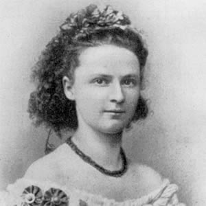 Luise Adolpha Le Beau (German composer 1850-1927), Photograph from 1872